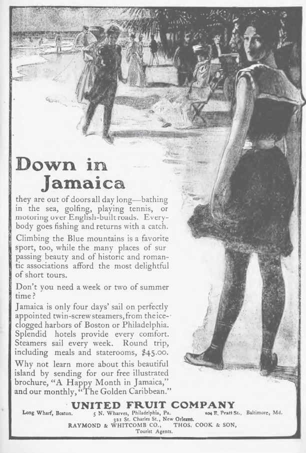 Ad taken from the January 1906 version of the Montreal Medical Journal, showing the United Fruit Company selling trips to Jamaica. Lightened and contrast adjusted.